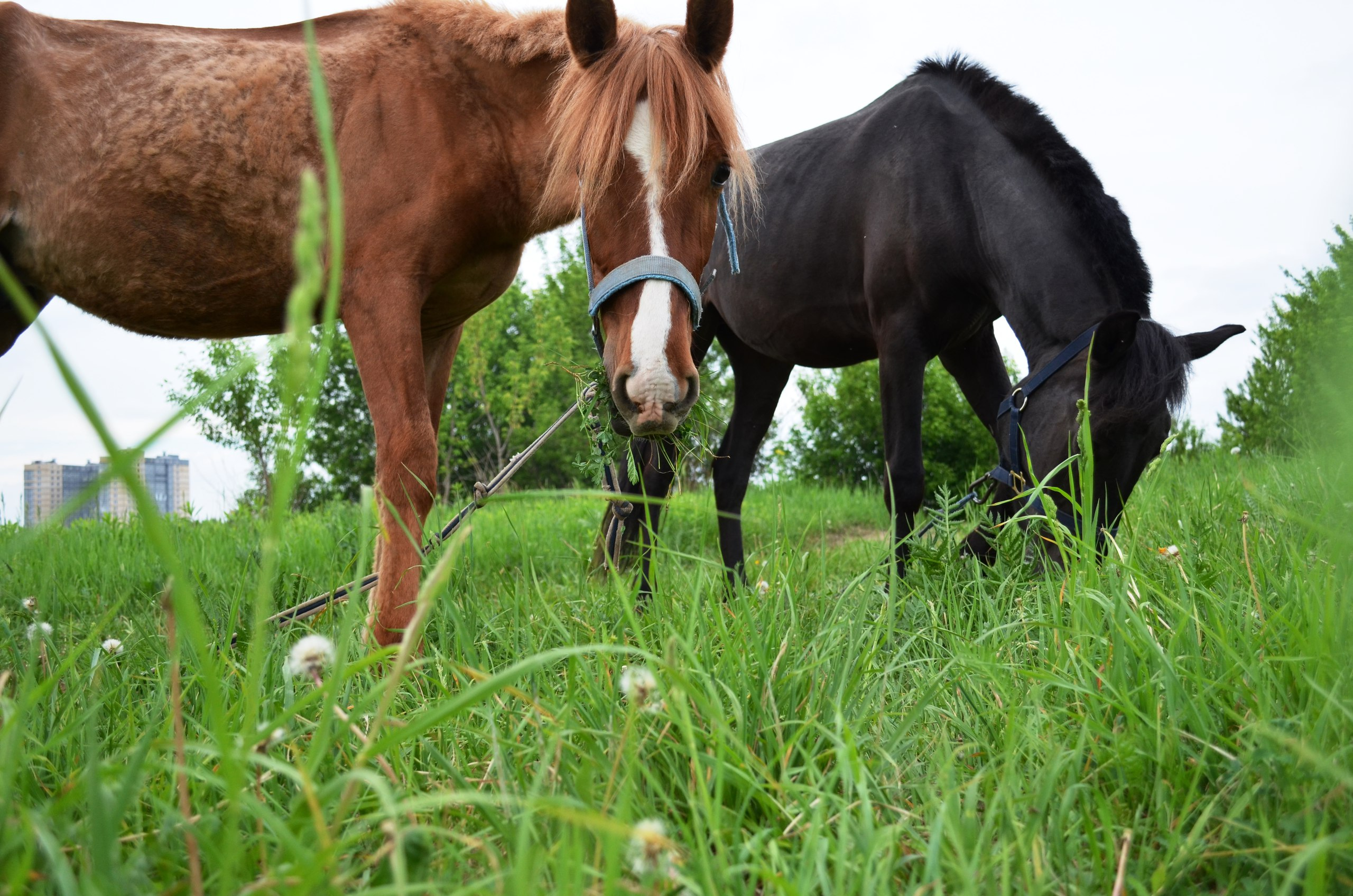 Foals Bashkir breed. Bashkir horse - a breed of horses, endemic to the Southern Urals. It comes from local species of steppe and forest type, formed in a sharply continental climate in the year-round grazing.